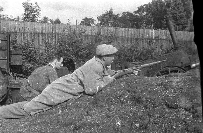 WarsawUprising: Andrzej Martens "Andrzej" (in front) and Leon Putowski "Pakulski" from "Agaton" Platoon of Pięść Battalon in the neighborhood of Evangelical Cemetary.